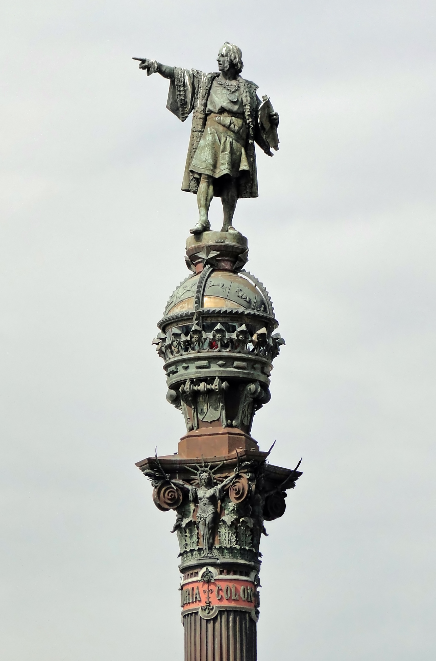 Monument to Christopher Columbus, Barcelona, Spain